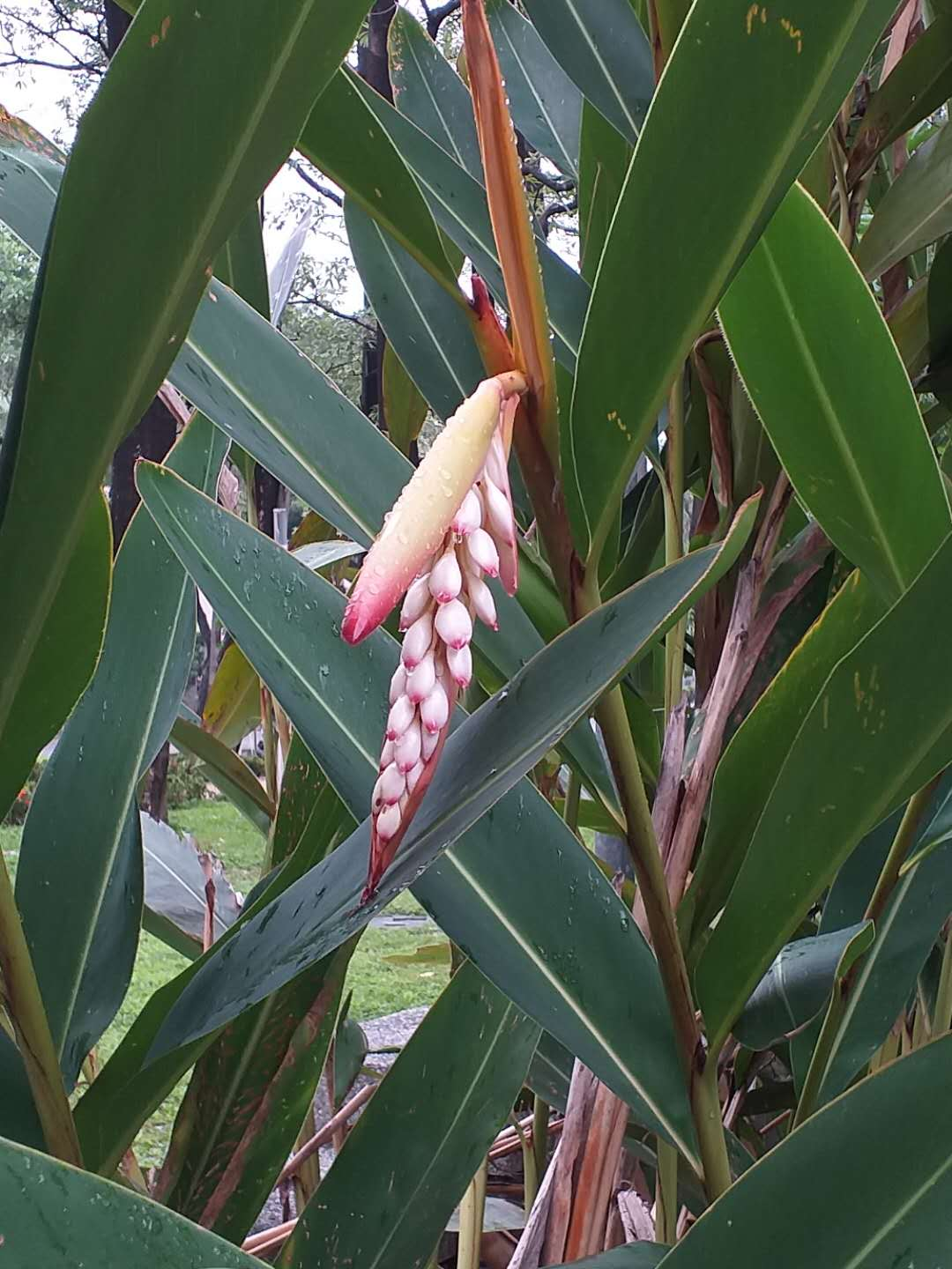 Alpinia zerumbet. The inflorescence protected by two bracts before flower bloom. National Chung Hsing University, Taichung, Taiwan.